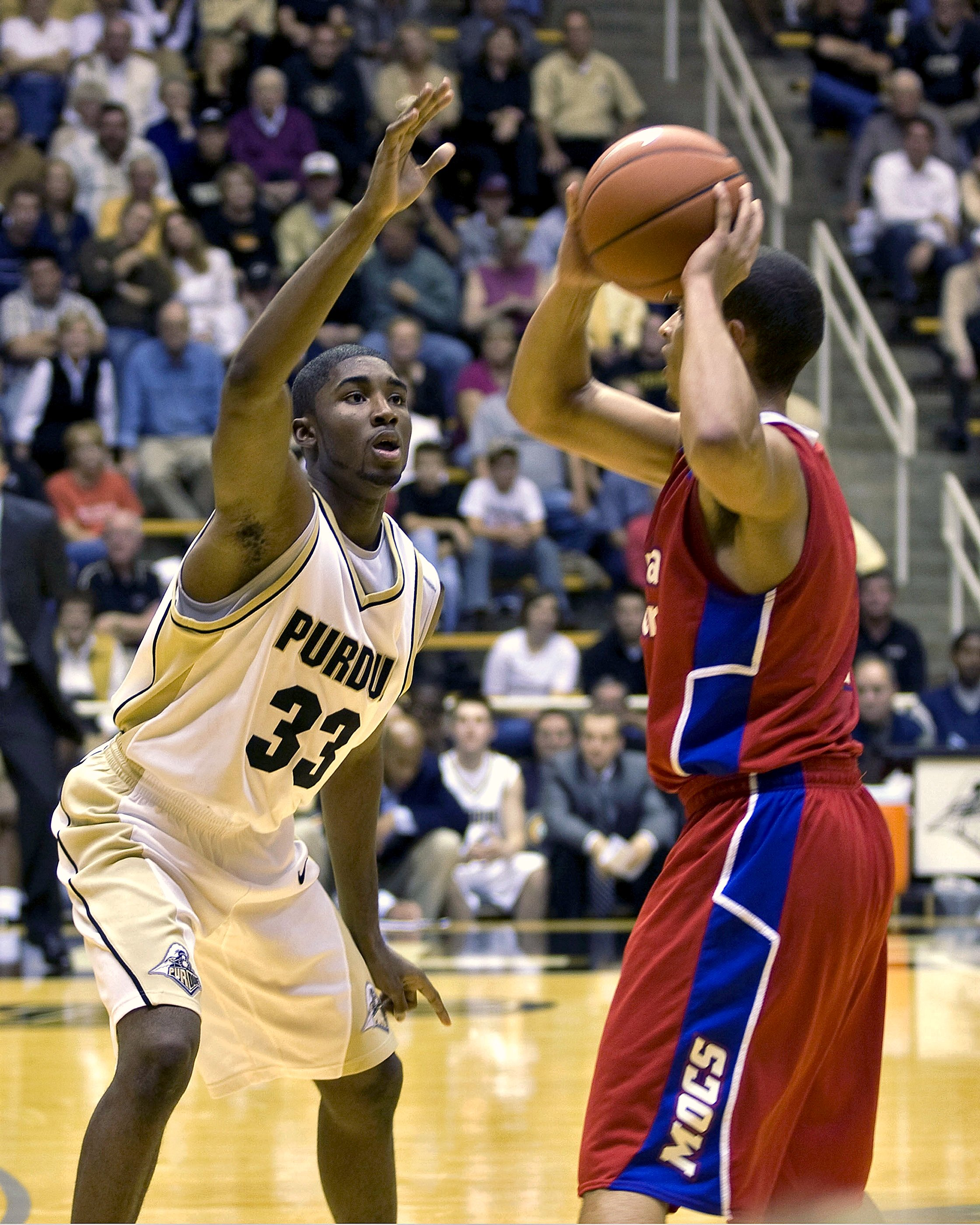 E'Twaun Moore on defense